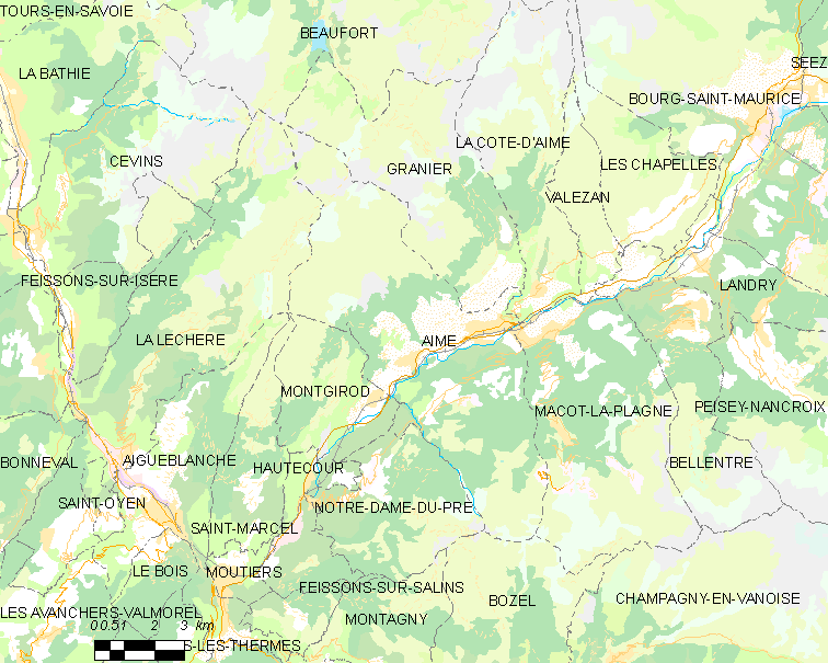 Map of French municipality